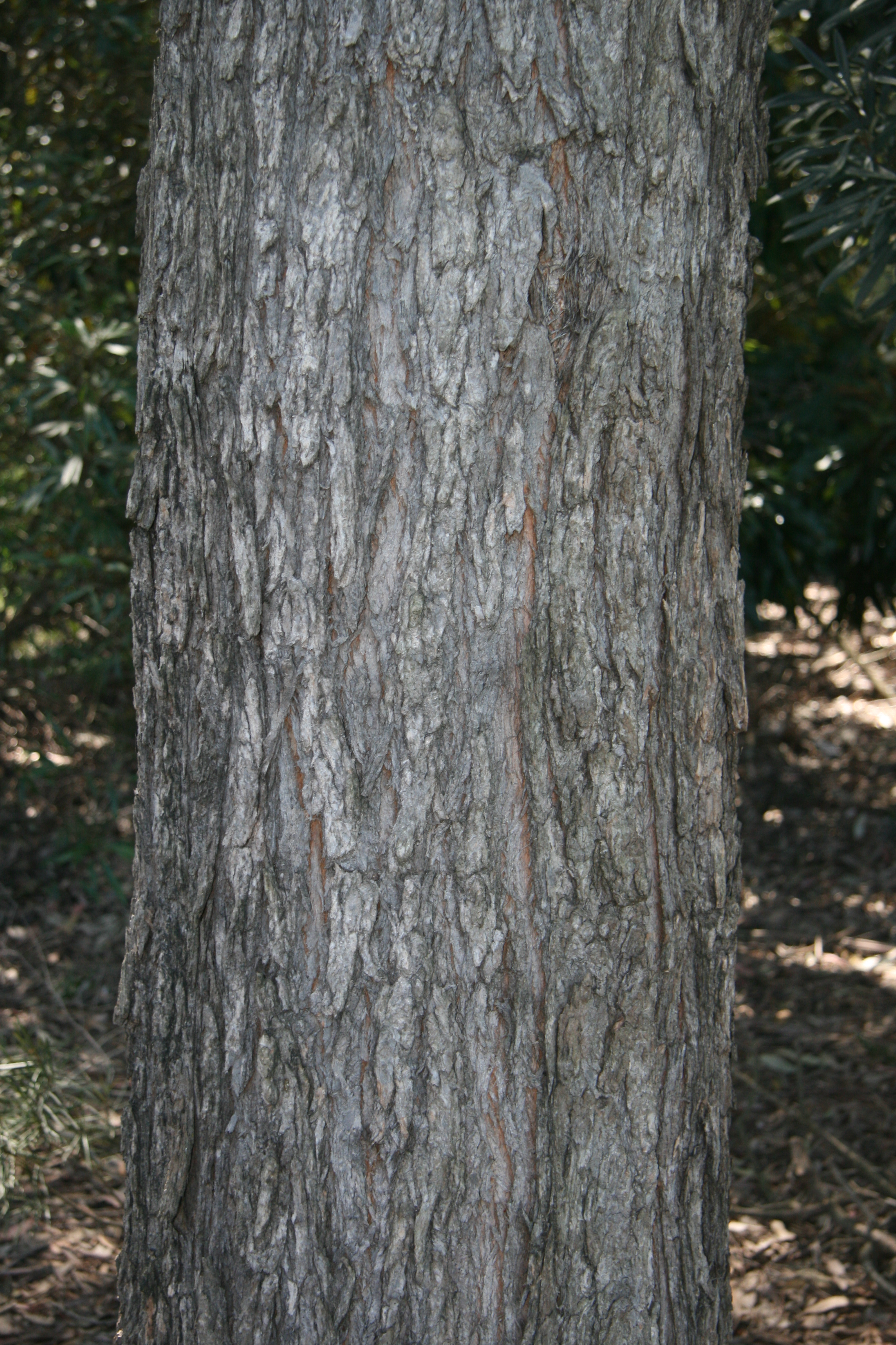 Angophora subvelutina trunk, at Mt Annan Botanic Gardens (where it grows locally)